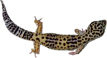 a healthy example of a female leopard gecko